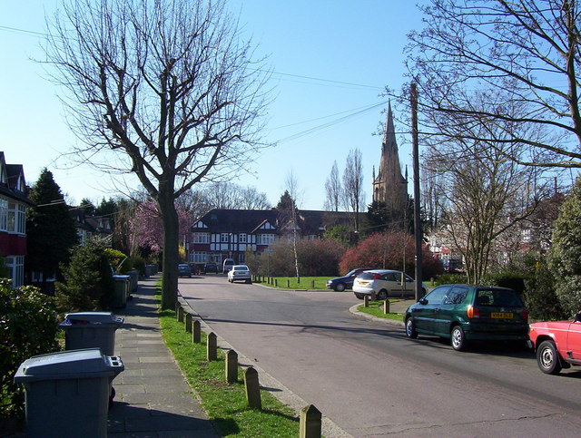 St Andrews Road Kingsbury. This view of St Andrews Church is taken from the top of the short no through road (St Andrews Road) Note the green in the centreand the mok Tudor style.